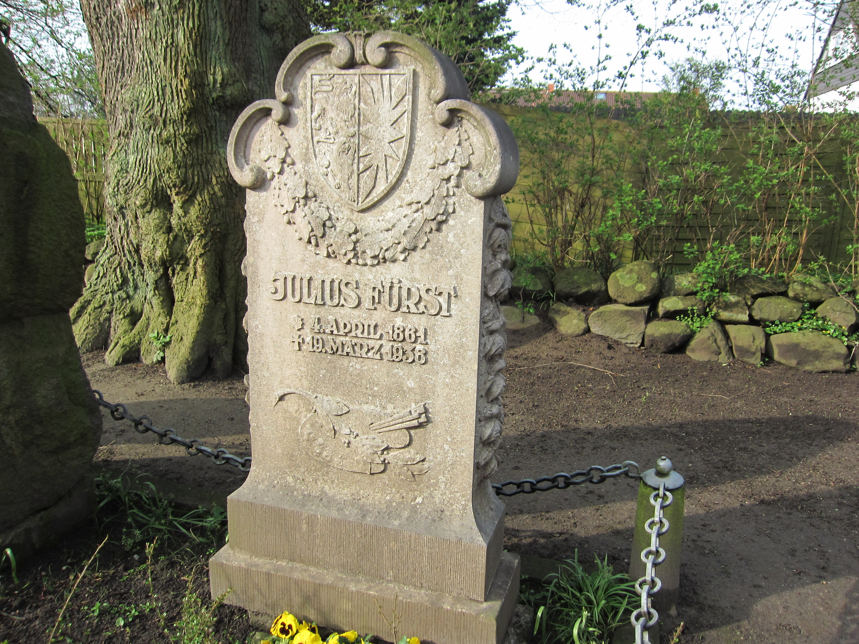 Headstone of Julius Fürst in Dänischenhagen